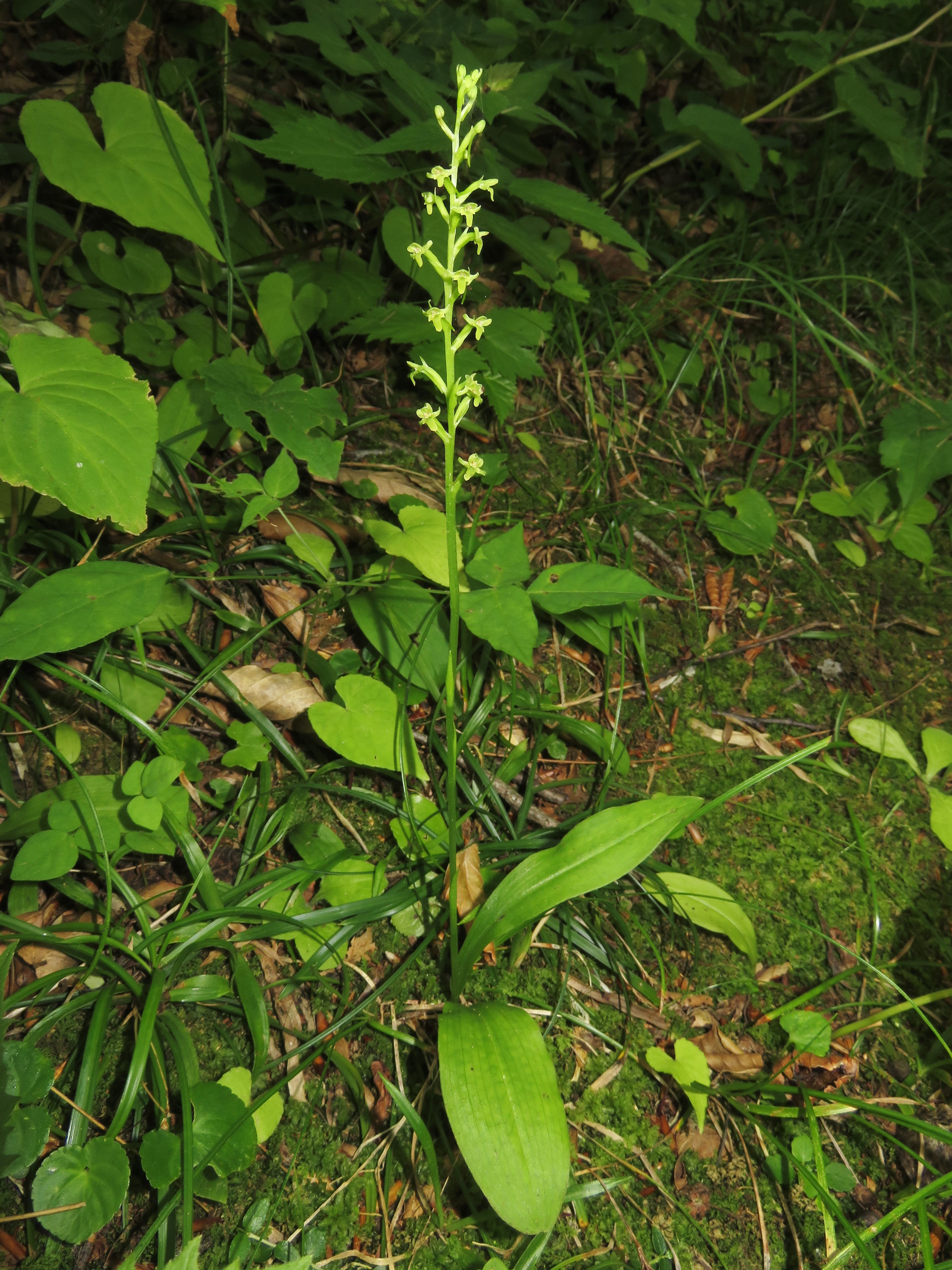 Platanthera ussuriensis, Tsugaru area, Aomori pref., Japan